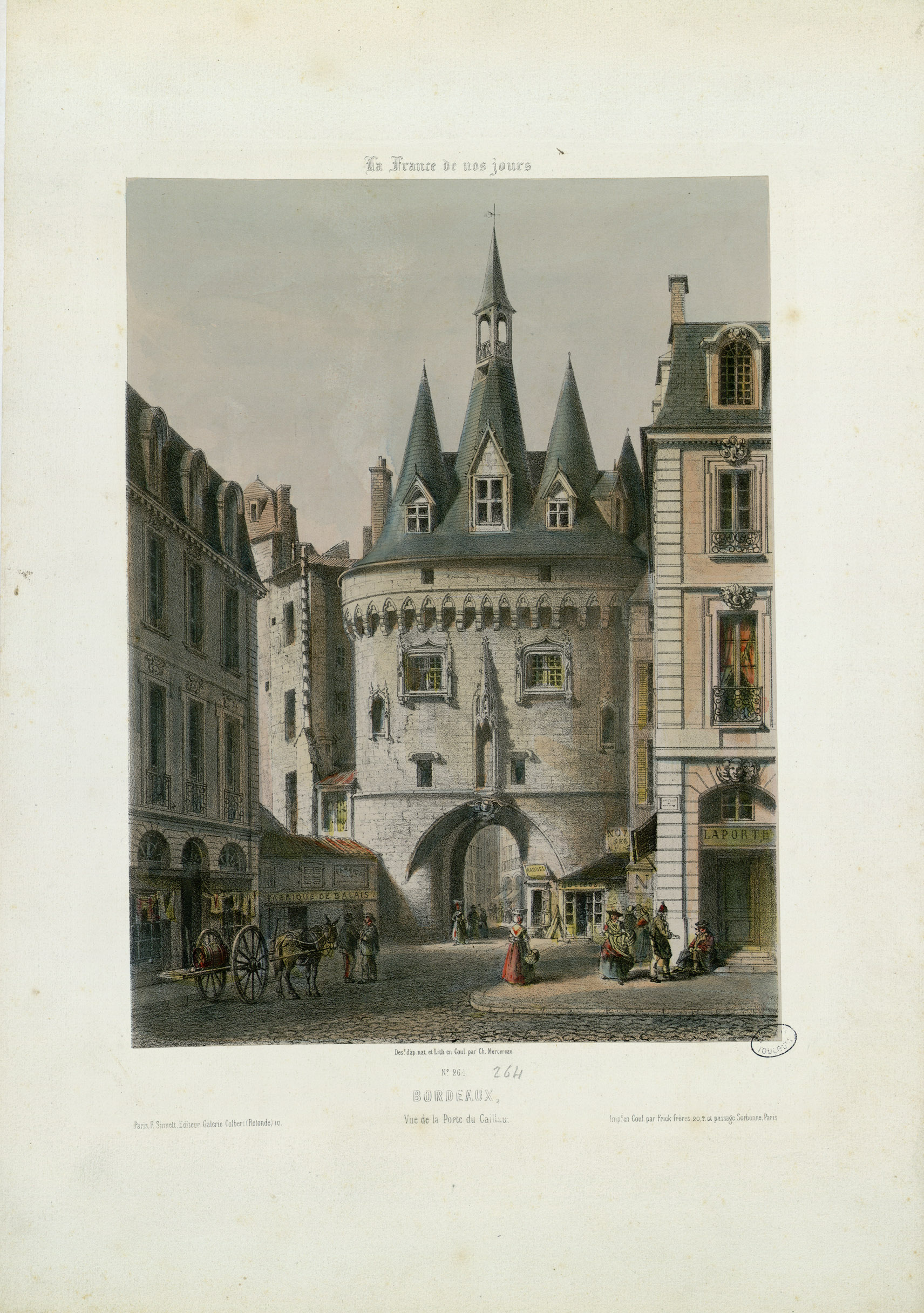 Gate of the Porte Cailhau in Bordeaux (Gironde, France). Engraving circa 1860.